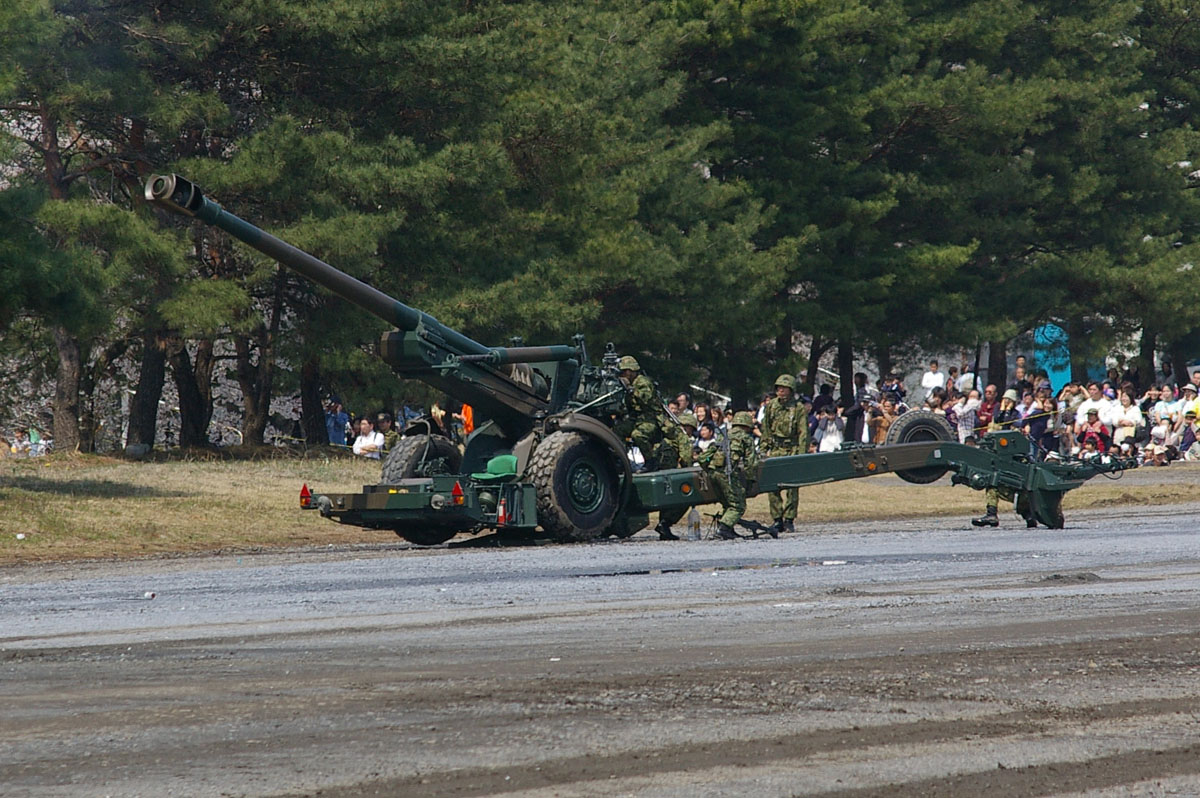 Taken by los688,8-Apr-2007,JGSDF Camp-Utsunomiya.JGSDF Howitzer FH70 (fire).PD-self. ja:2007年4月8日、投稿者撮影。陸上自衛隊宇都宮駐屯地創立57周年記念行事。FH70榴弾砲、第12特科隊。